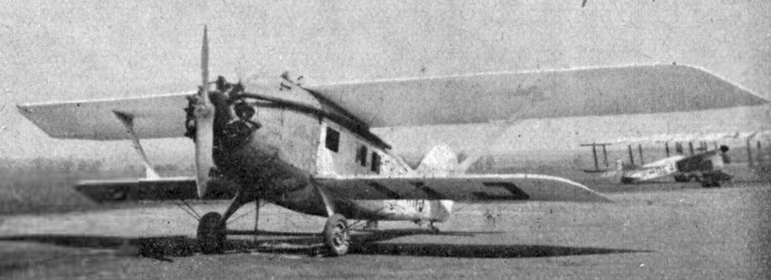 Breguet 26 photo from L'Aéronautique March,1928